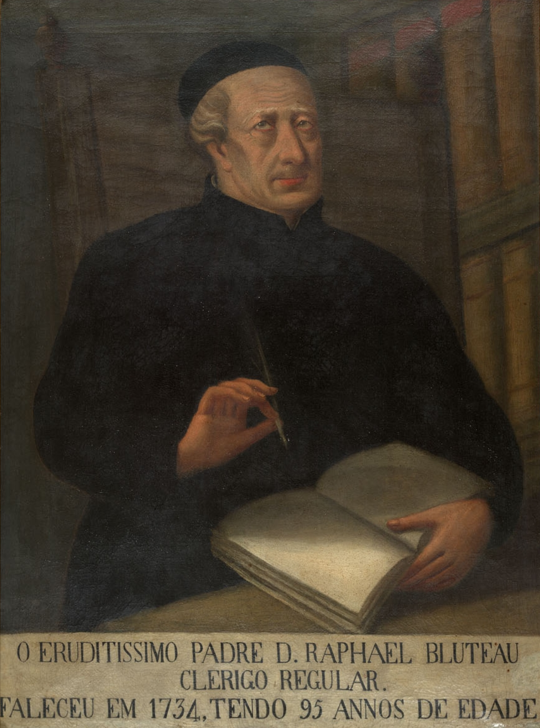 Rafael Bluteau (1638-1734), cleric of the Order of Saint Cajetan.